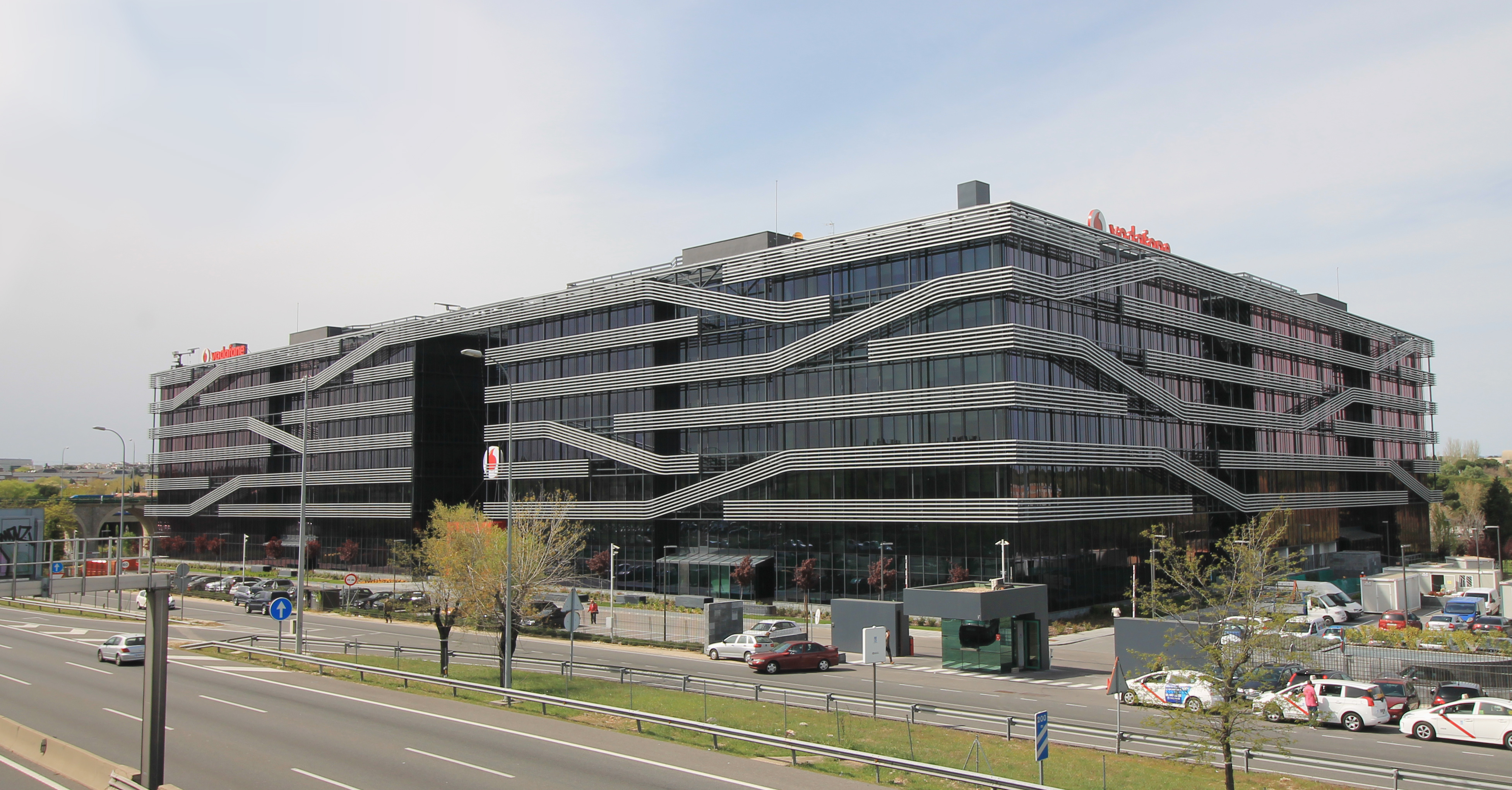 View of Vodafone offices in Madrid (Spain).